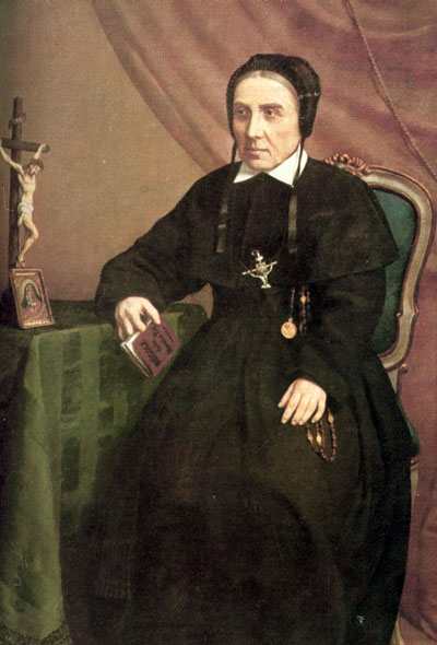 Elisabetta Renzi's portrait, ca. 1870